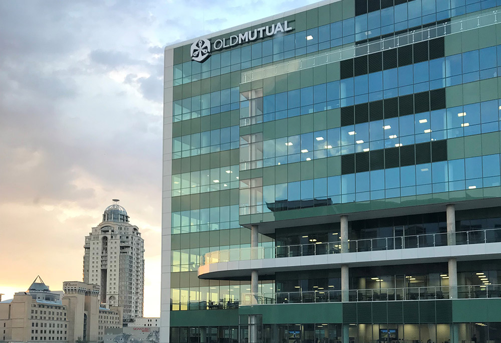 Photograph of the Old Mutual Headquarters, 1 Mutual Place, in Johannesburg, South Africa